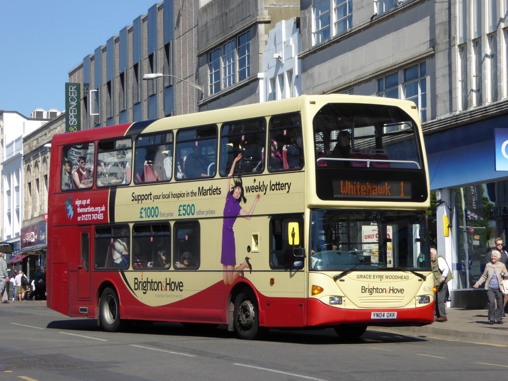 Brighton & Hove 636 YN04 GKK Grace Eyre Woodhead on 1